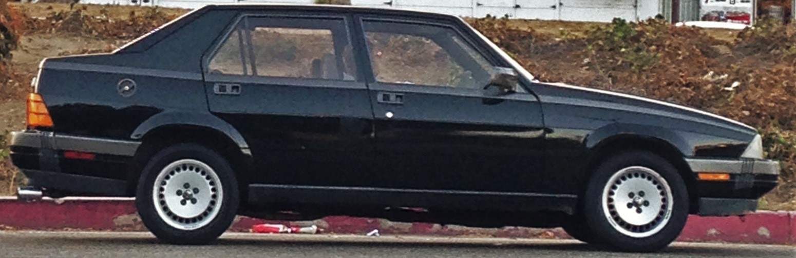 Alfa Romeo: just encountered an extremely rare sight on American roads.